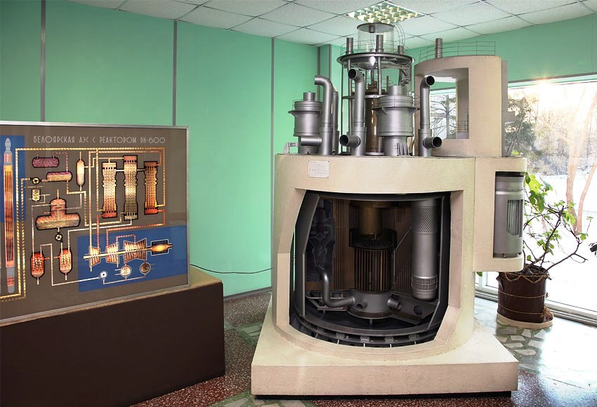 Model of a BN-600 reactor, displayed in the Beloyarsk Nuclear Power Station, Russia.